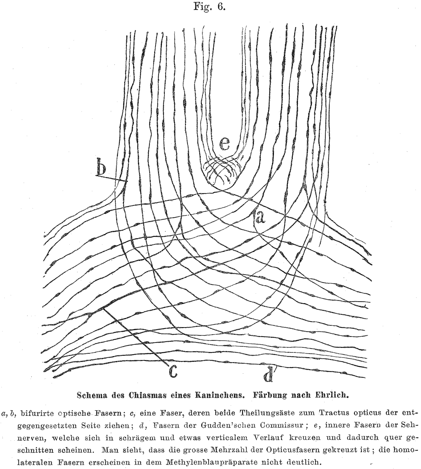 Example of bifurcating axons in the optic chiasm of a rabbit. a,b,c: bifurcating optic fibres. c: fibre bifurcating in the two opposite optic tracts. d. Commisure of Gudden. e. Fibres that continue in a different depth.